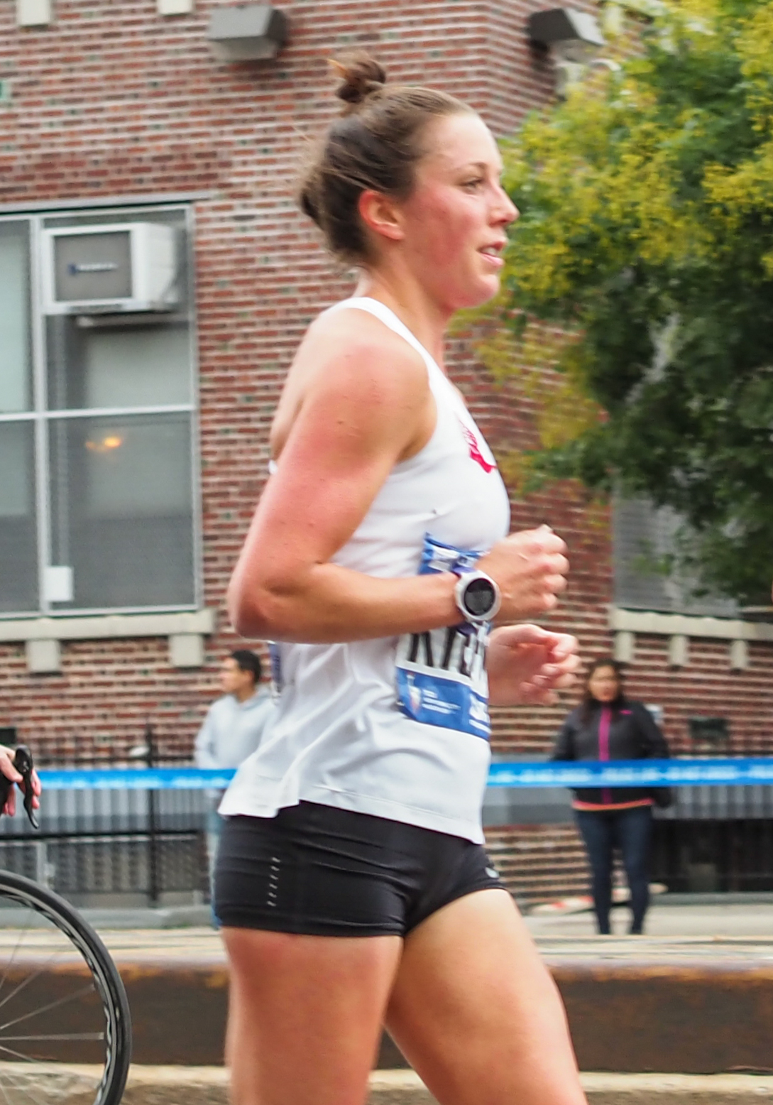 2017 New York City Marathon Sunset Park, Brooklyn